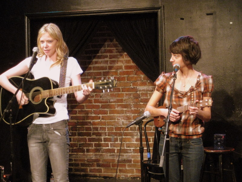 Riki Lindhome and Kate Micucci performing as "Garfunkel and Oates" at the UCB Theater in Hollywood